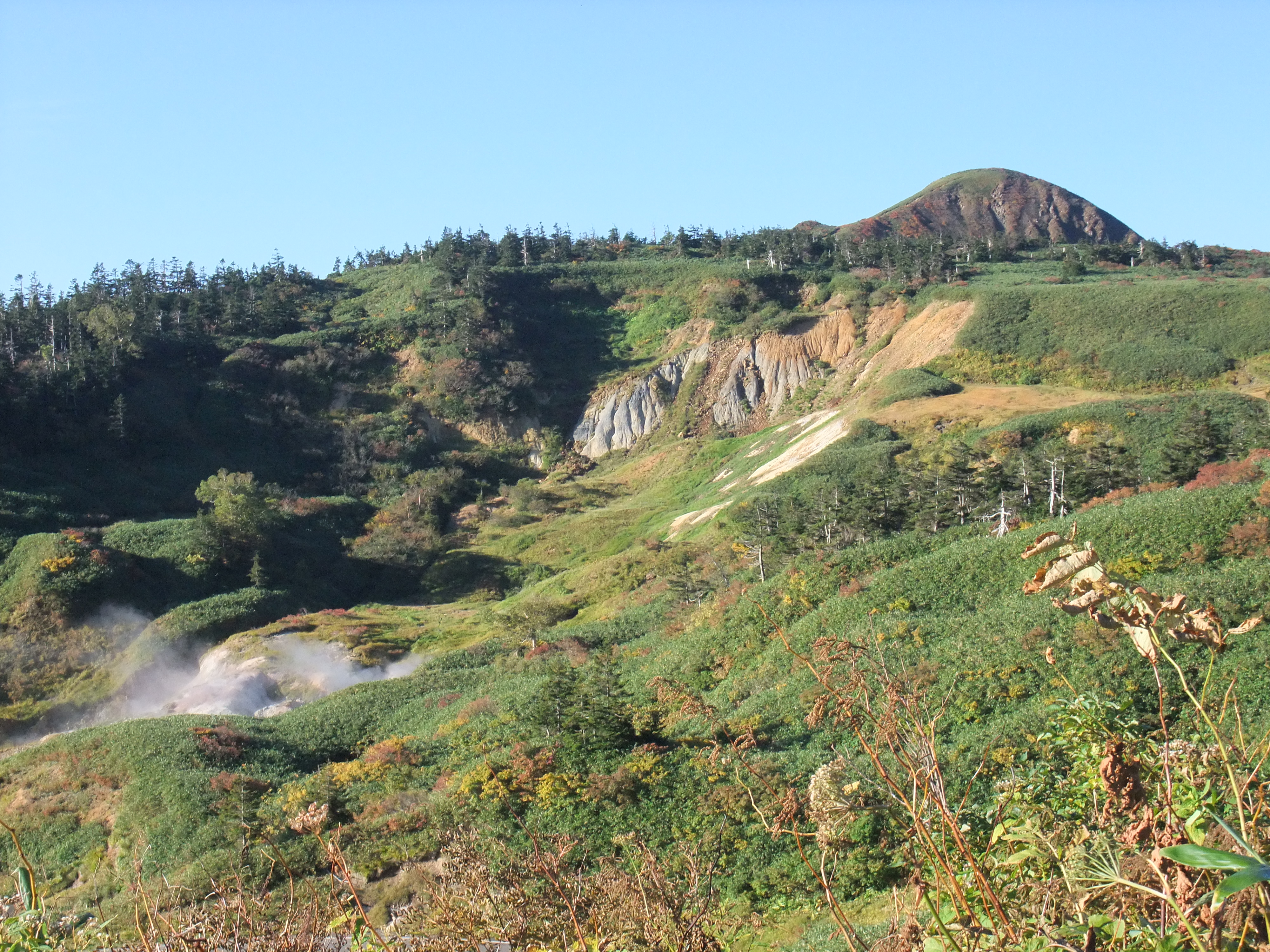 Mount Mokko (Mokko-dake) and the outdoor bath of Toshichi Onsen